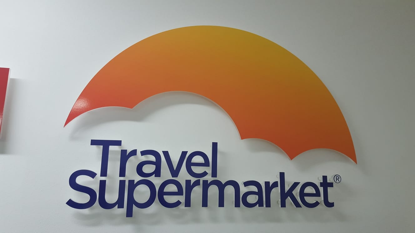 Logo of Travel Supermarket as seen inside the reception of the Ewloe offices.